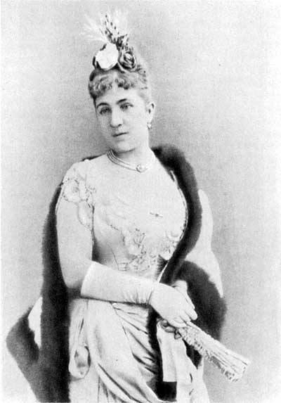 Augusta Julia Jacobs (? - 1925), the wife of Peter Karl Fabergé (1846 – 1920)